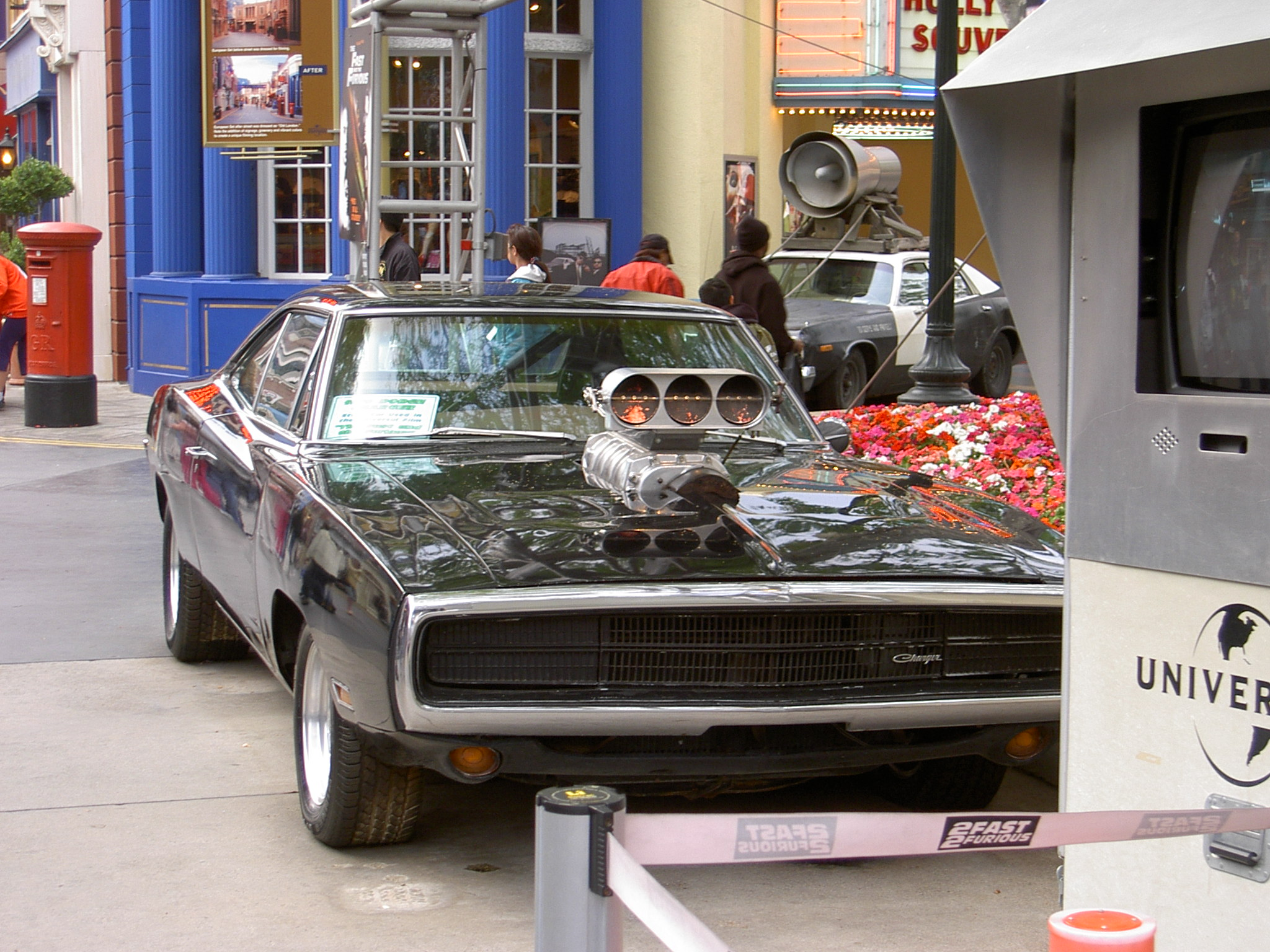 Dodge Charger which build for the Fast and The Furious film. Pictured from Universal Studio Hollywood.